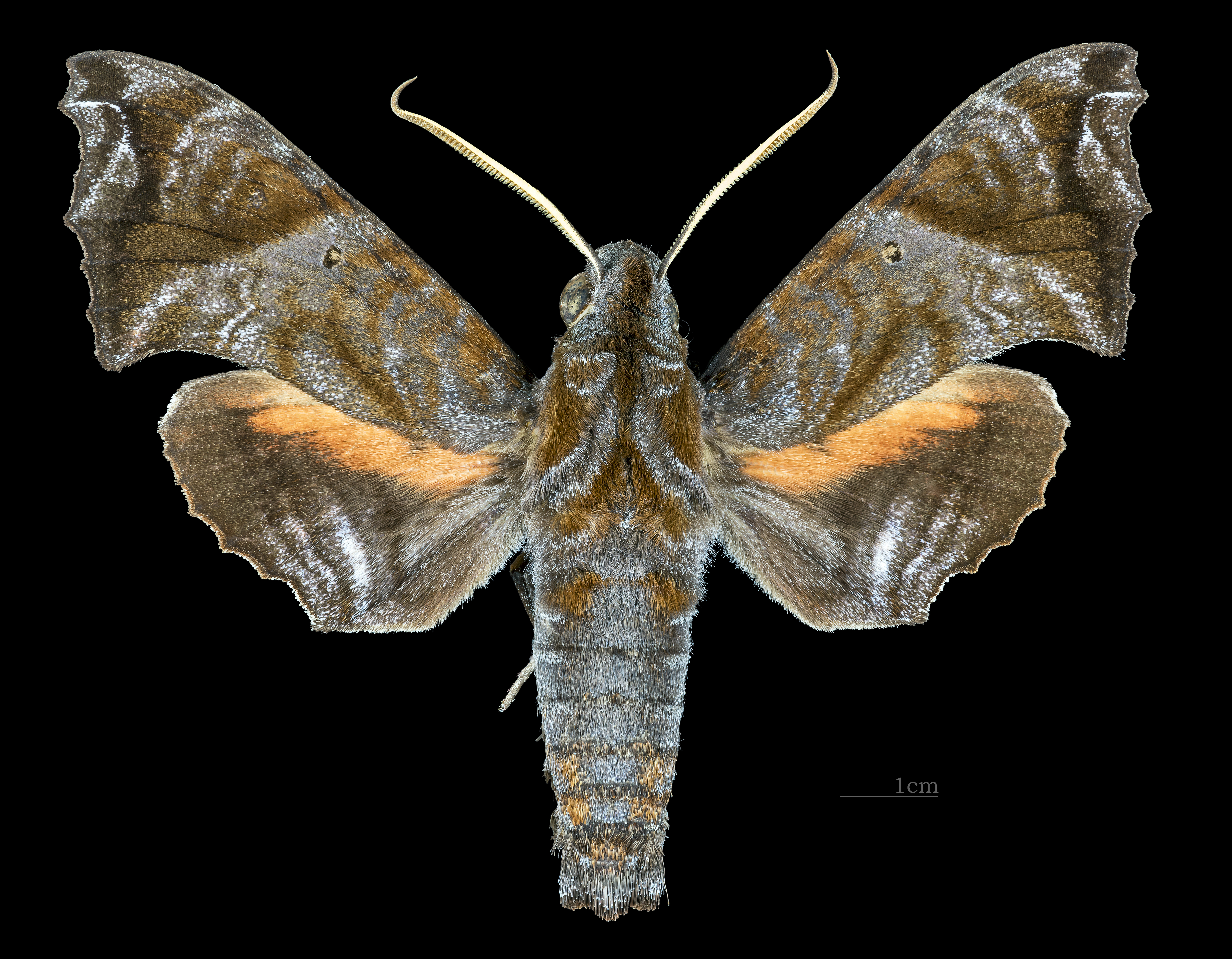 Nyceryx magna - Dorsal side Collection of the Mathematician Laurent Schwartz